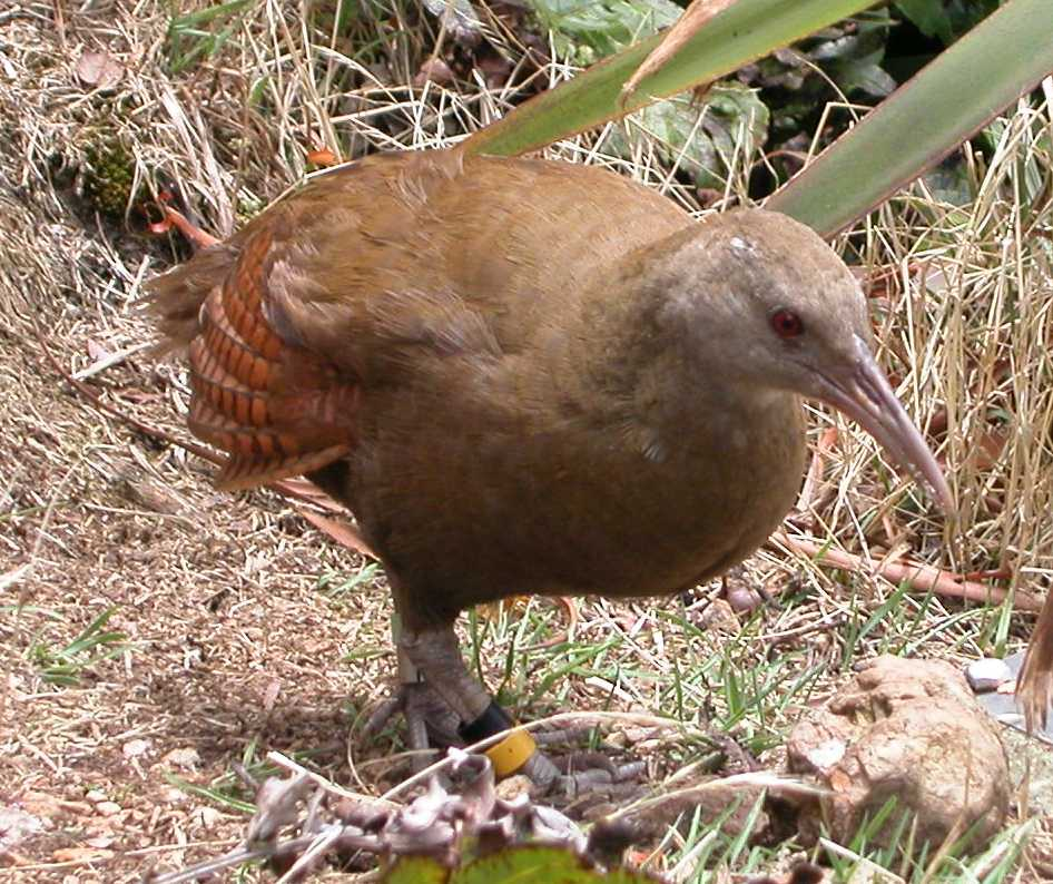 Lord Howe Woodhen, Gallirallus sylvestris, near the Summit of Mount Gower